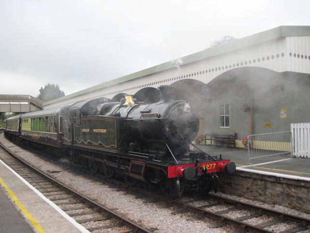 Hercules leaving Churston